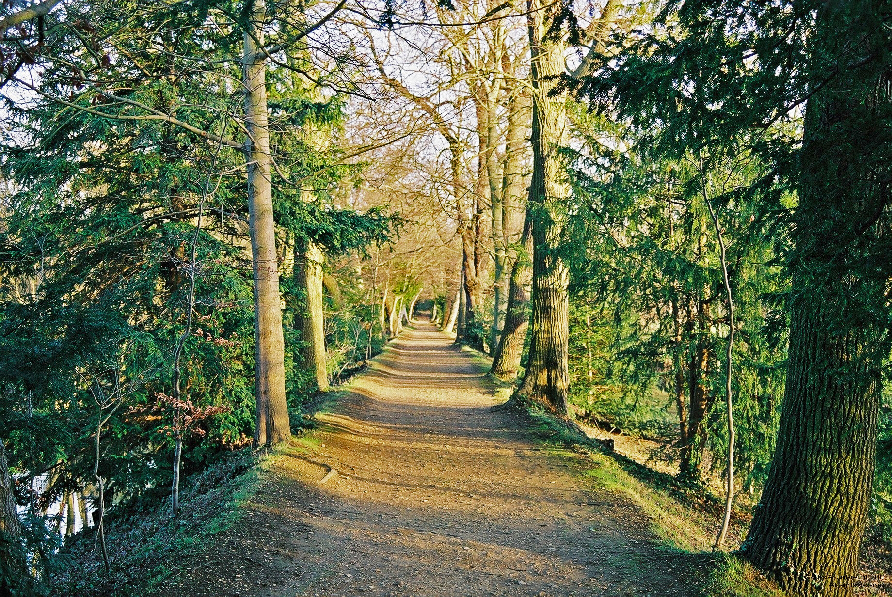 Addison's Walk, Magdalen College, Oxford, England